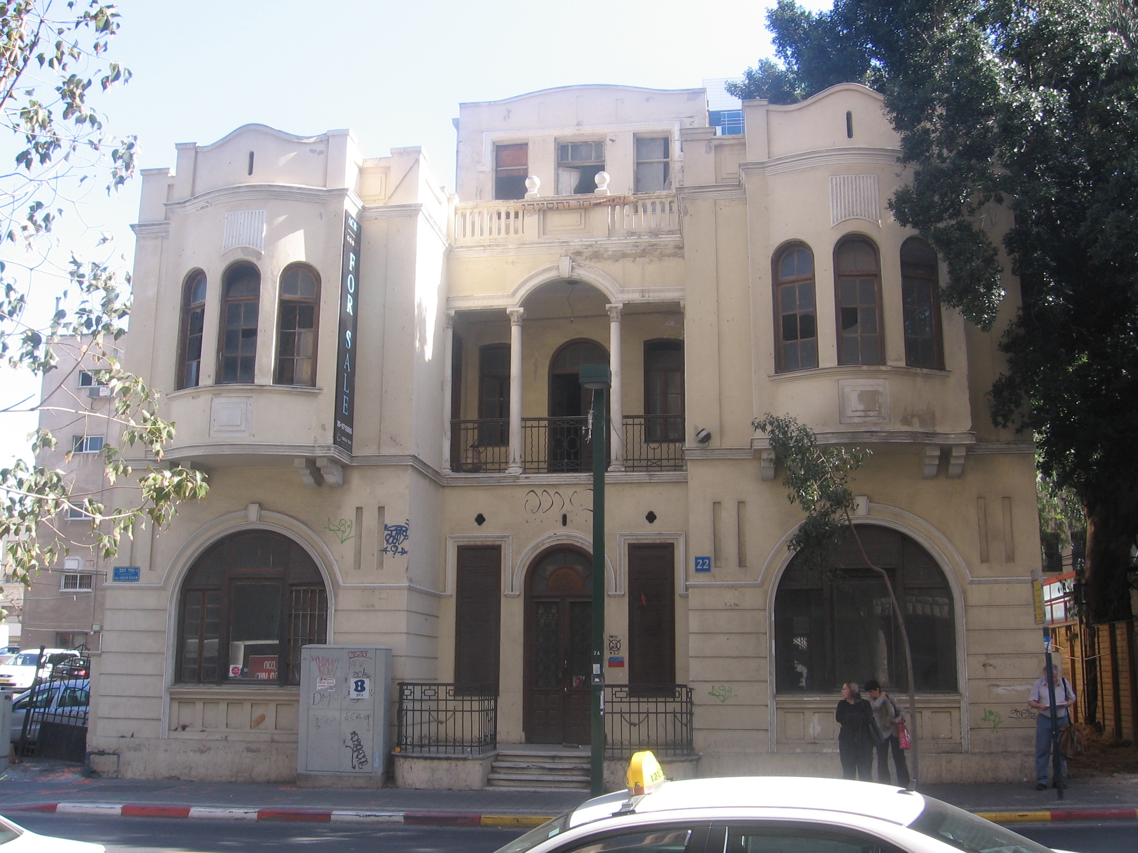 Litwinsky house in Tel Aviv.